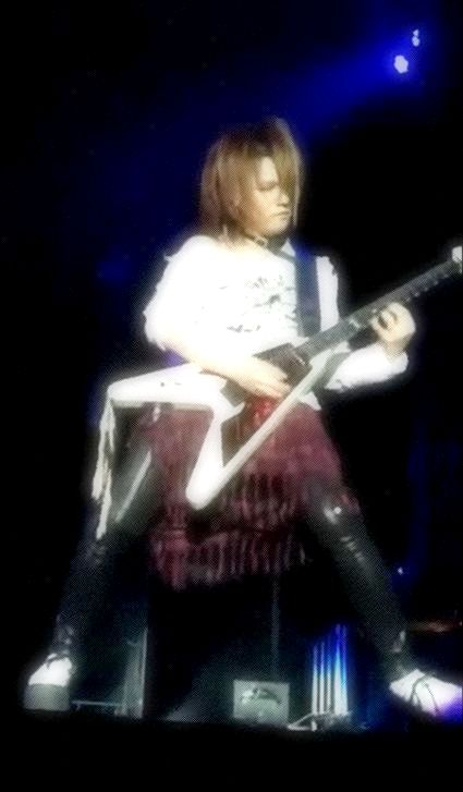 Yuki Masahiko is a rock guitarist of Japan.